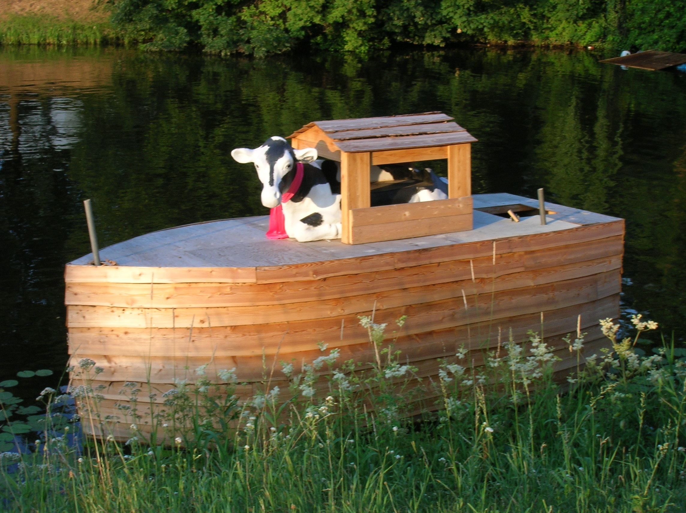 A cow floating on the Nieuwe Vecht in the centre of Zwolle, as an art project. The red shawl has been hung around the cow's neck for a forthcoming event, Roze Zaterdag Zwolle 2007 to be held on 24 June 2006.